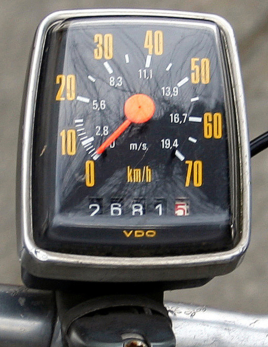 Eddy-current tachometer at a bike.